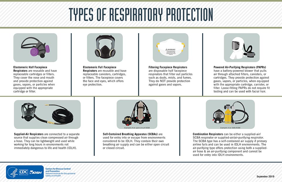 Types of respiratory protection (masks)